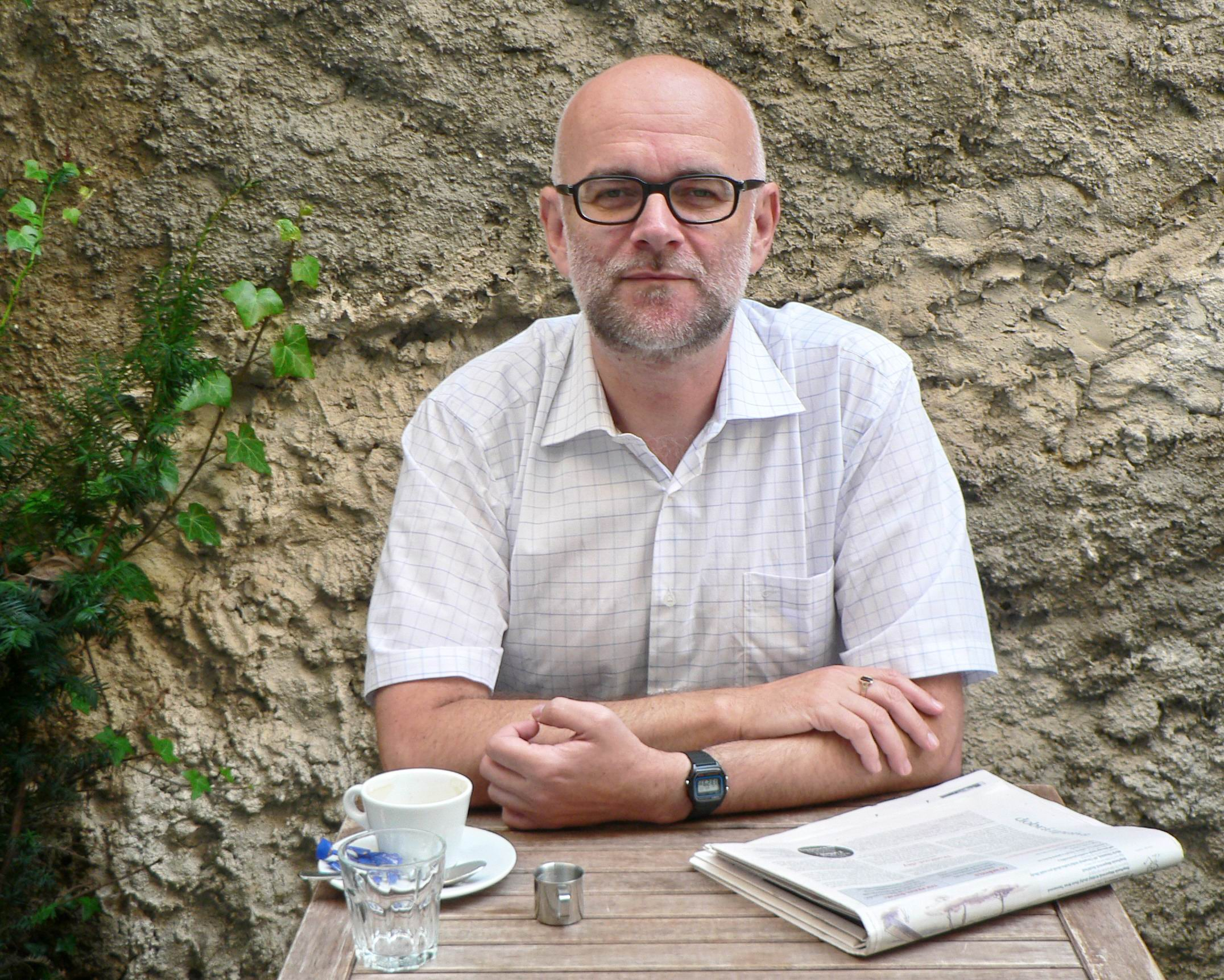 prof. Stanislav Komárek, Czech philosopher, biologist (September 2010)